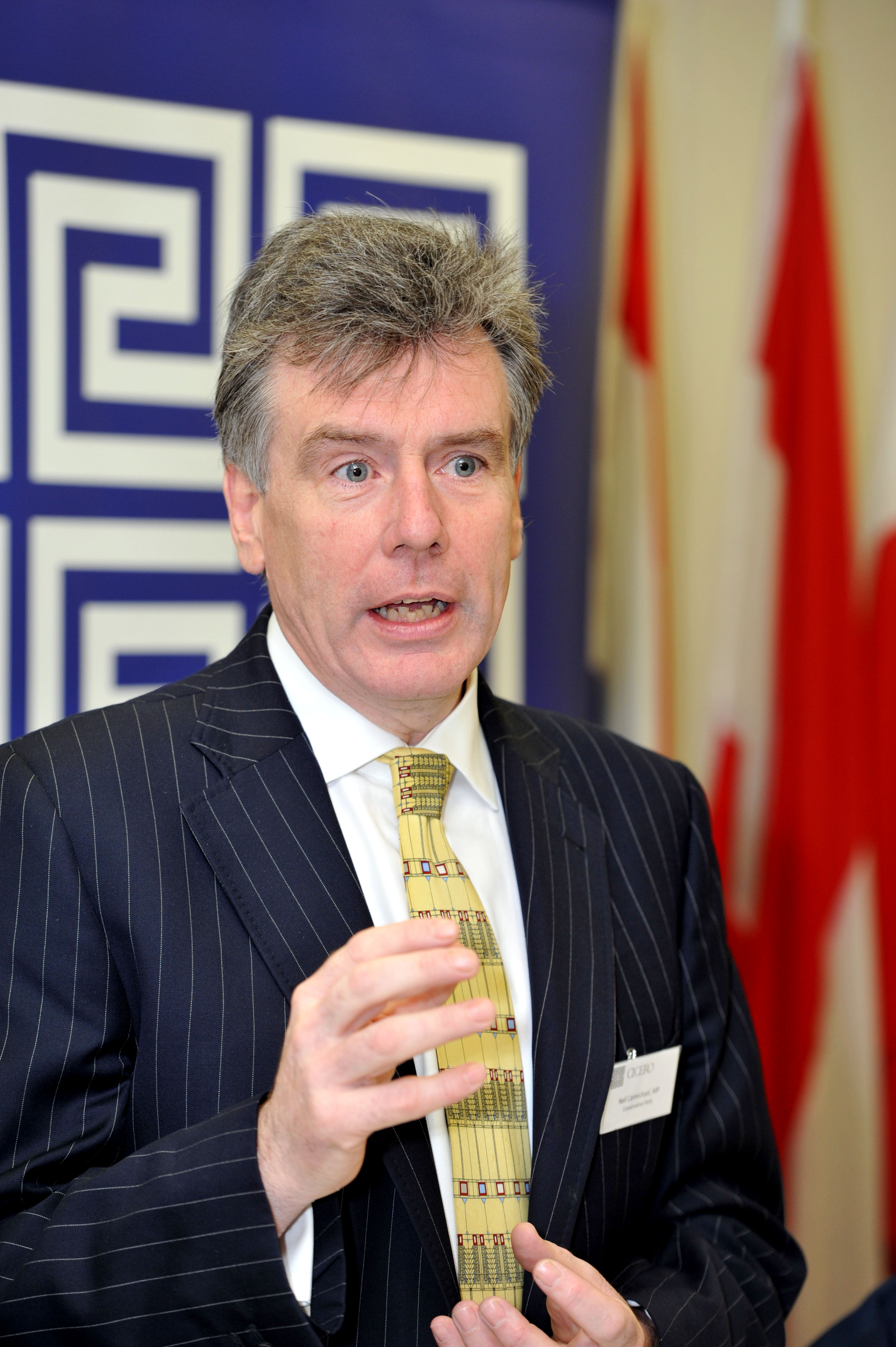 Neil Carmichael, Conservative MP for Stroud attends the post budget breakfast, A Balancing Act, hosted by Cicero in central London. Photo by Michael Walter/Troika